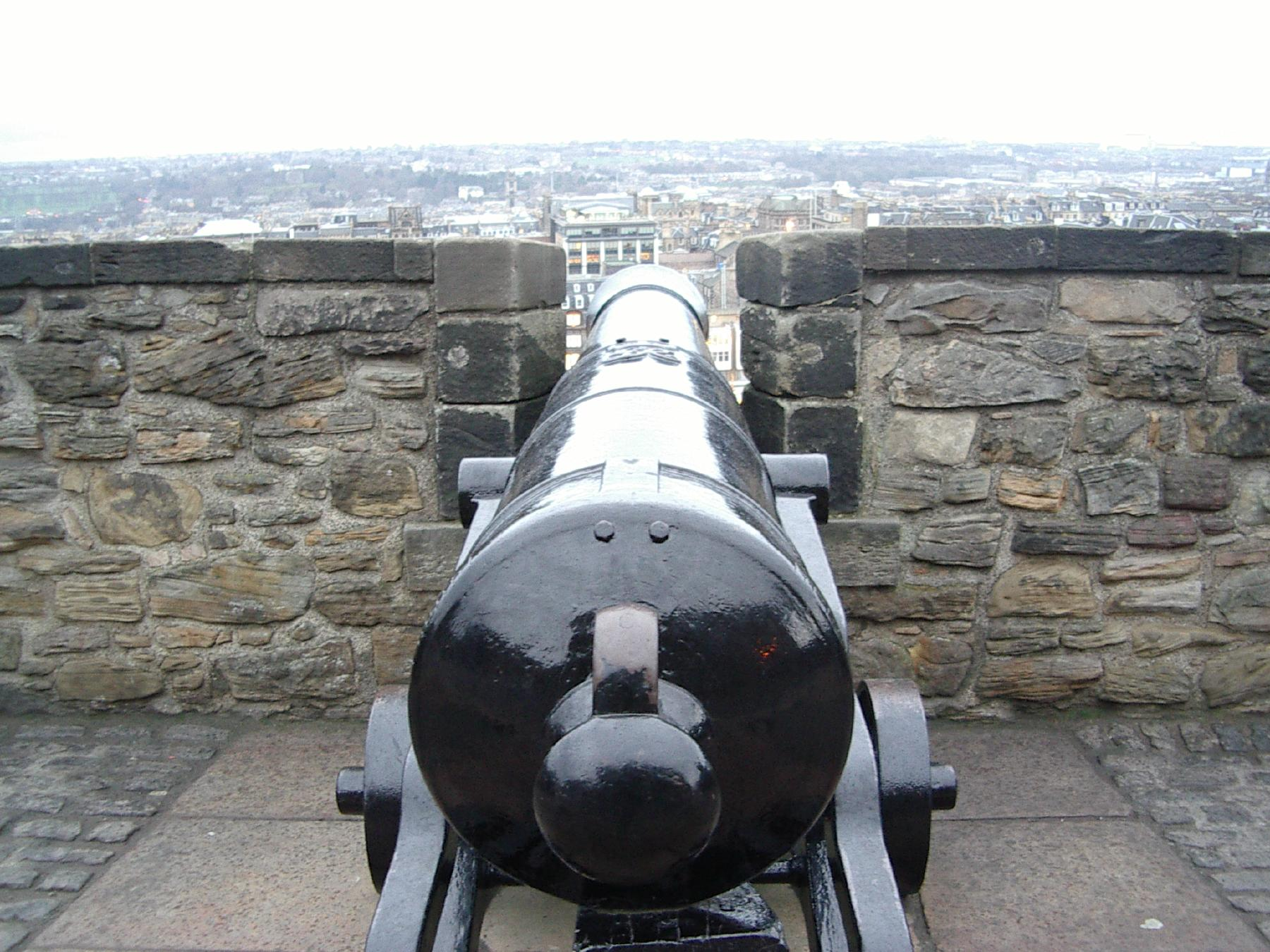 Cannon, Edinburgh, Scotland